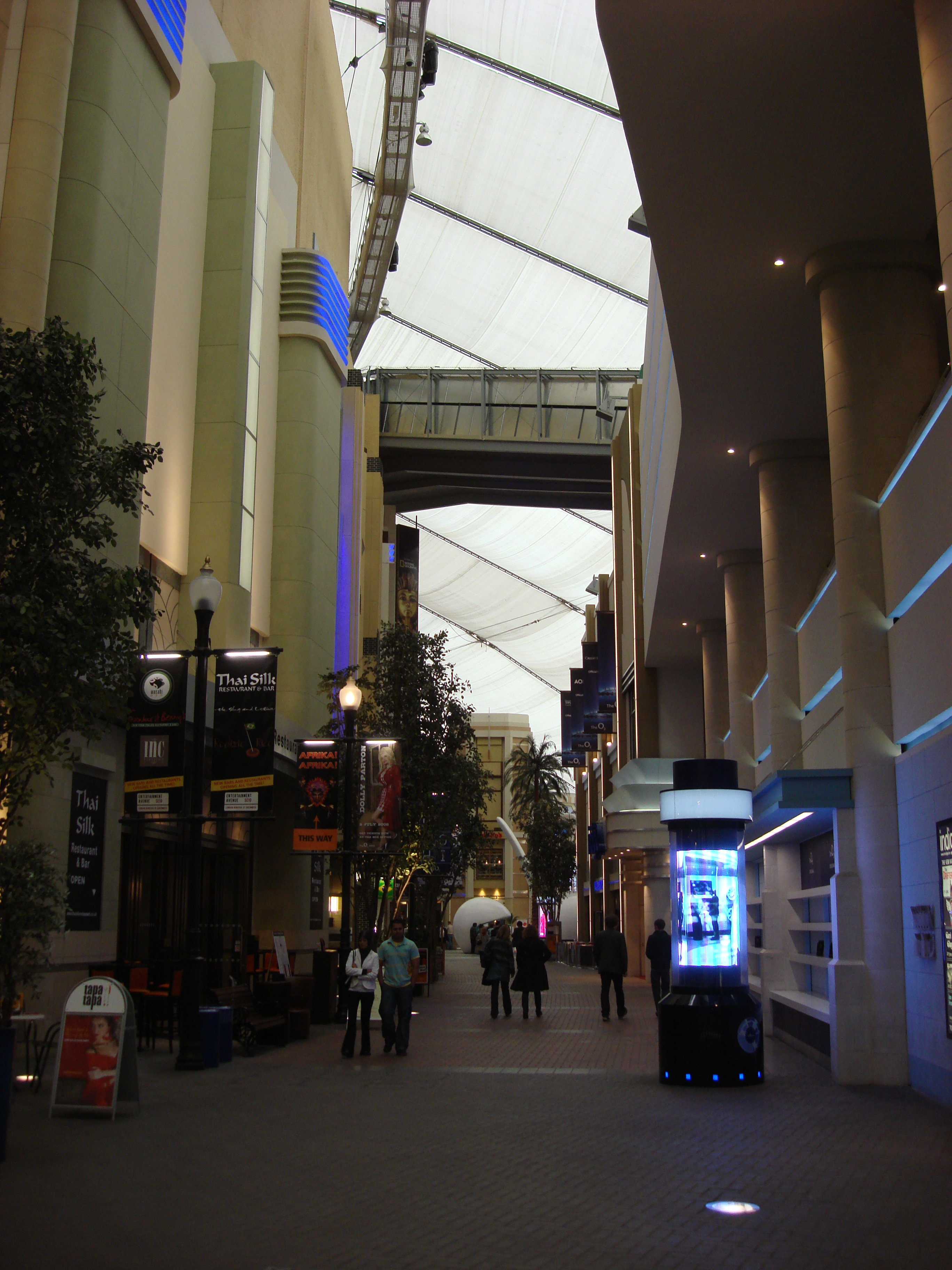 The Entertainment Avenue, managed by Montagu Estates, a Property Management company, is a modern wide pedestrian avenue within The O2